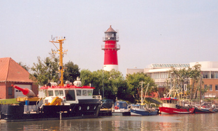 This picture shows the lighthouse and part of the harbor in Büsum, Germany.